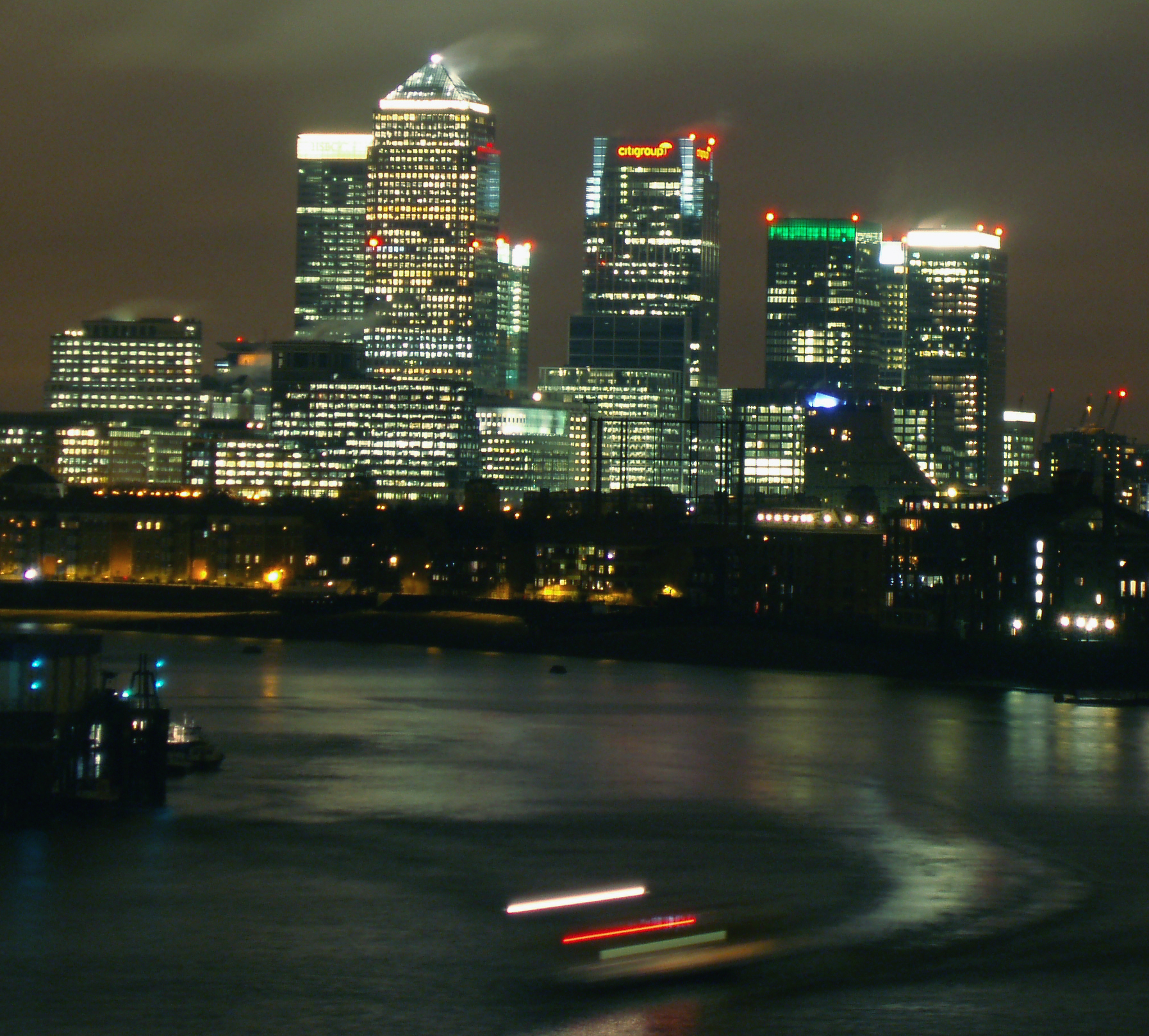 Canary Wharf at night ,taken 27/12/05